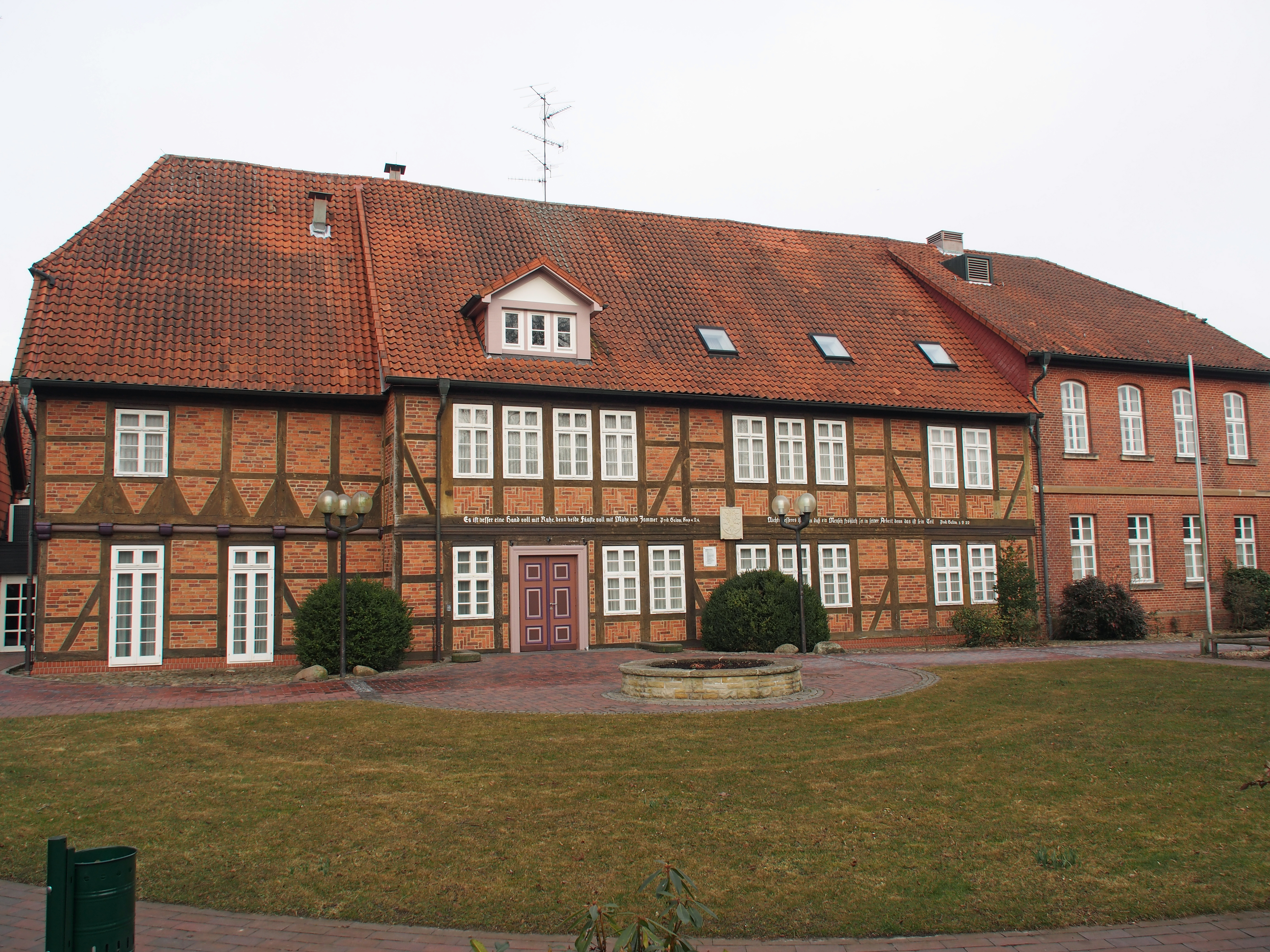 The Stadthaus (former district court)